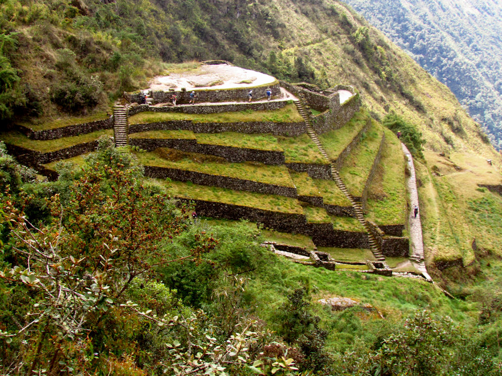 Phuyupatamarca ("cloud-level town"), Inka Trail to Machu Picchu, Peru